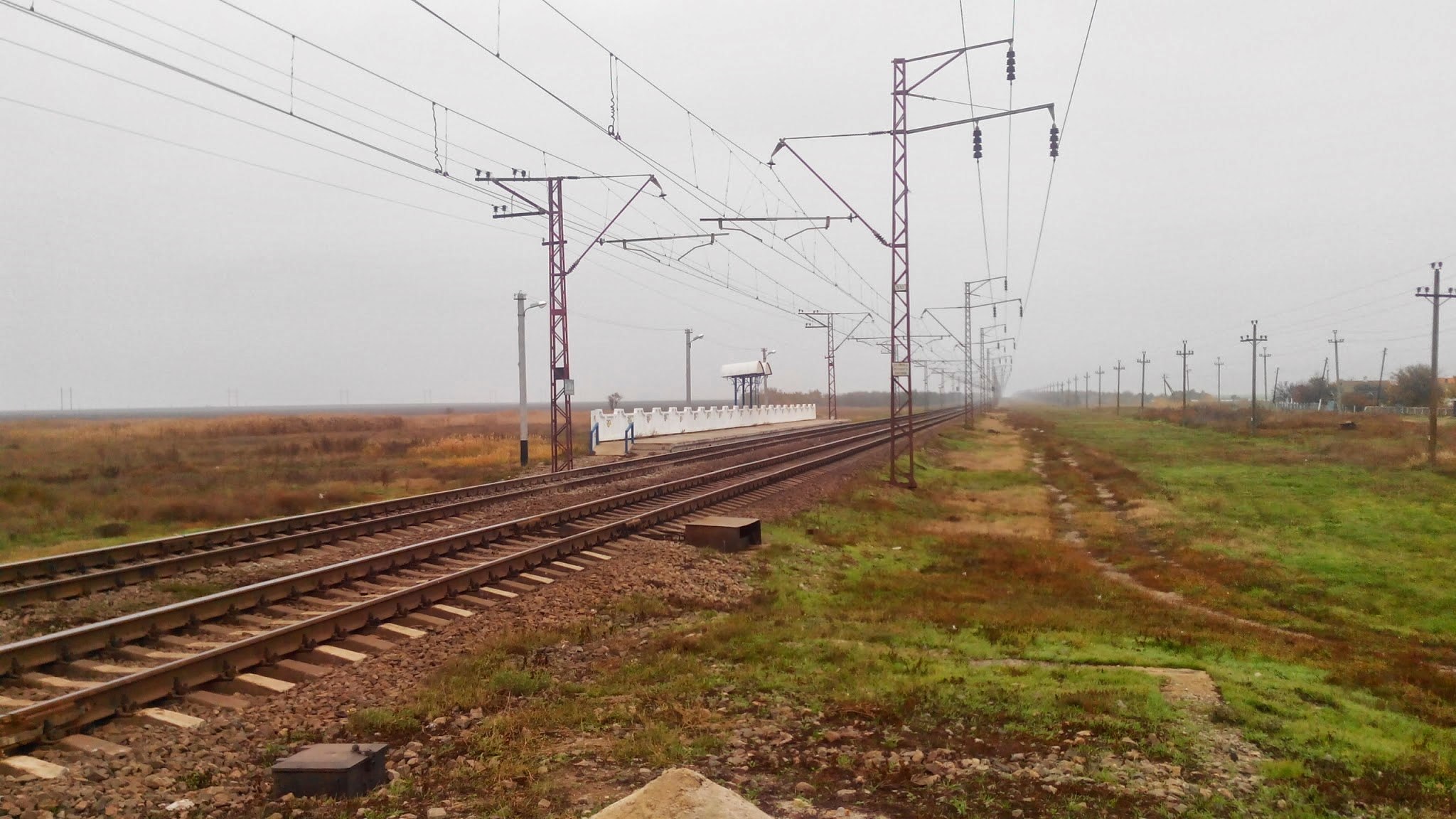 1334 km train halt in Chonhar, Kherson Oblast, Ukraine